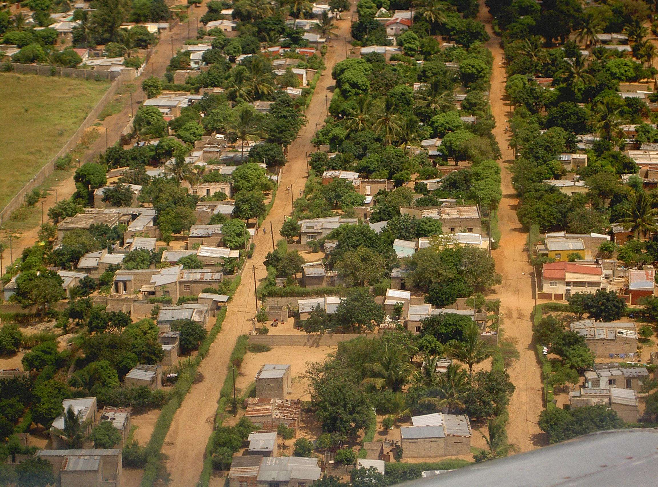 Houses in the outskirt of Maputo.